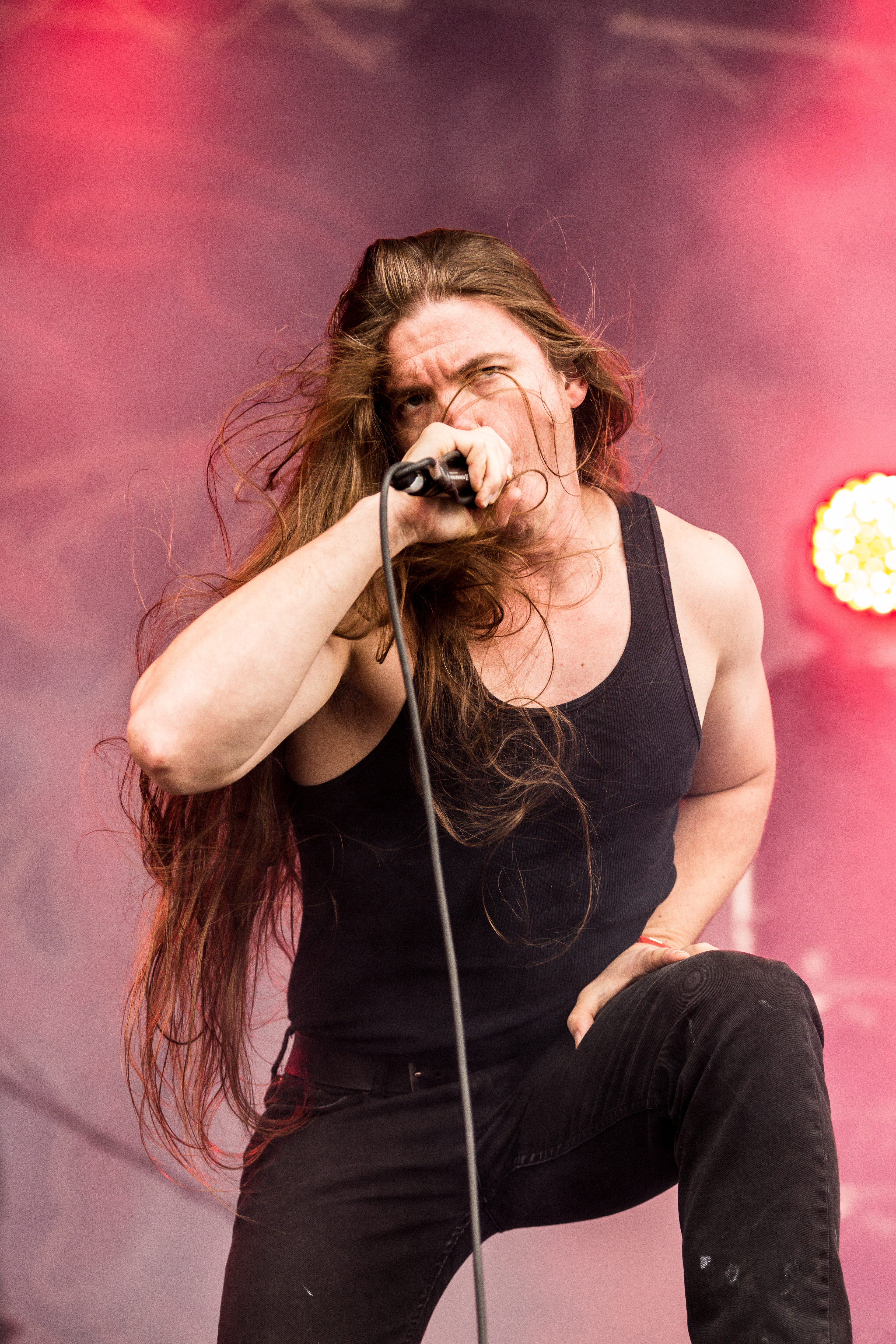 The Canadian technical death metal band Cryptopsy at the Party.San Metal Open Air 2017 in Obermehler-Schlotheim/Germany.